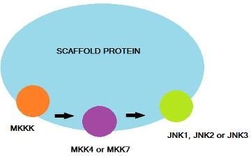 Picture shpwing how scaffold proteins help MAP2K7.